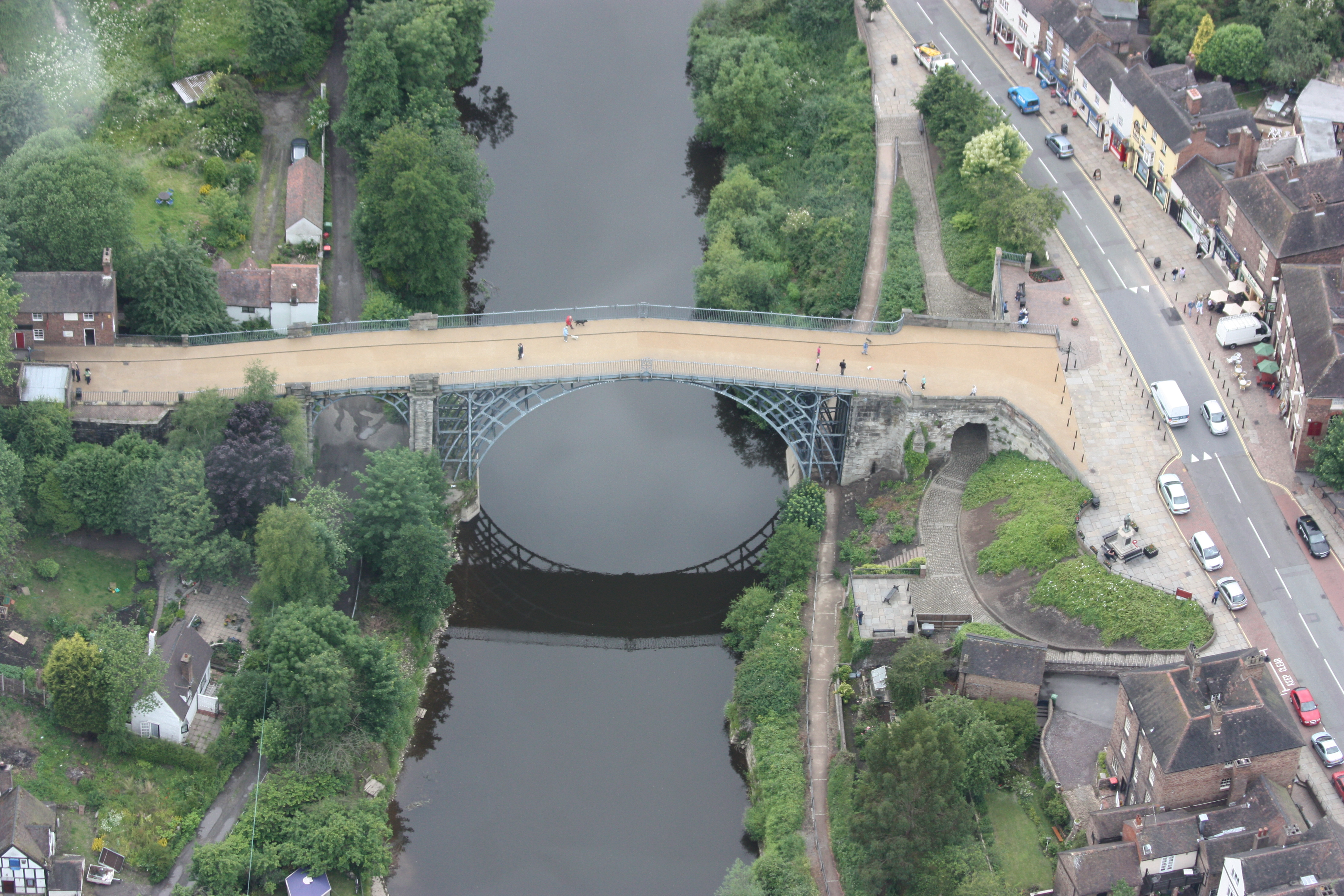 The Iron Bridge at Ironbridge, Shropshire, as seen from a Grob Tutor T1 of UBAS at RAF Cosford.